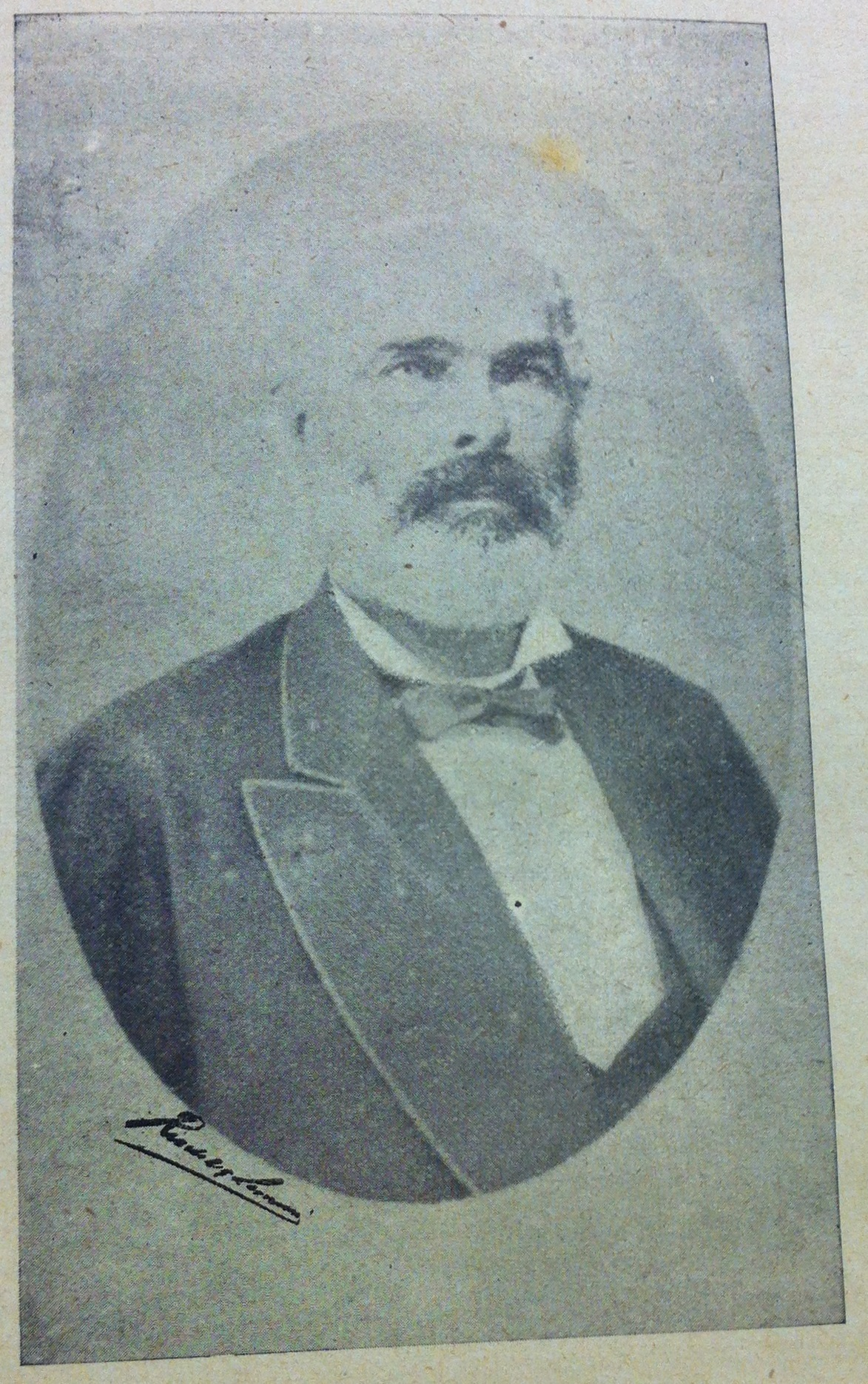 Manuel Jacinto Domingues de Castro, barão de Paraitinga